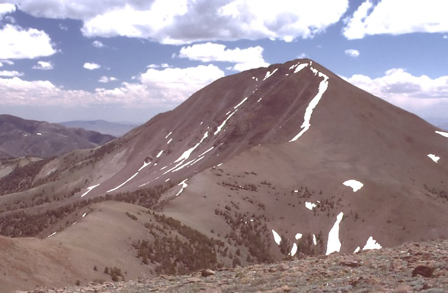 Arc Dome in the Toiyabe Range of Nevada, looking southwest.